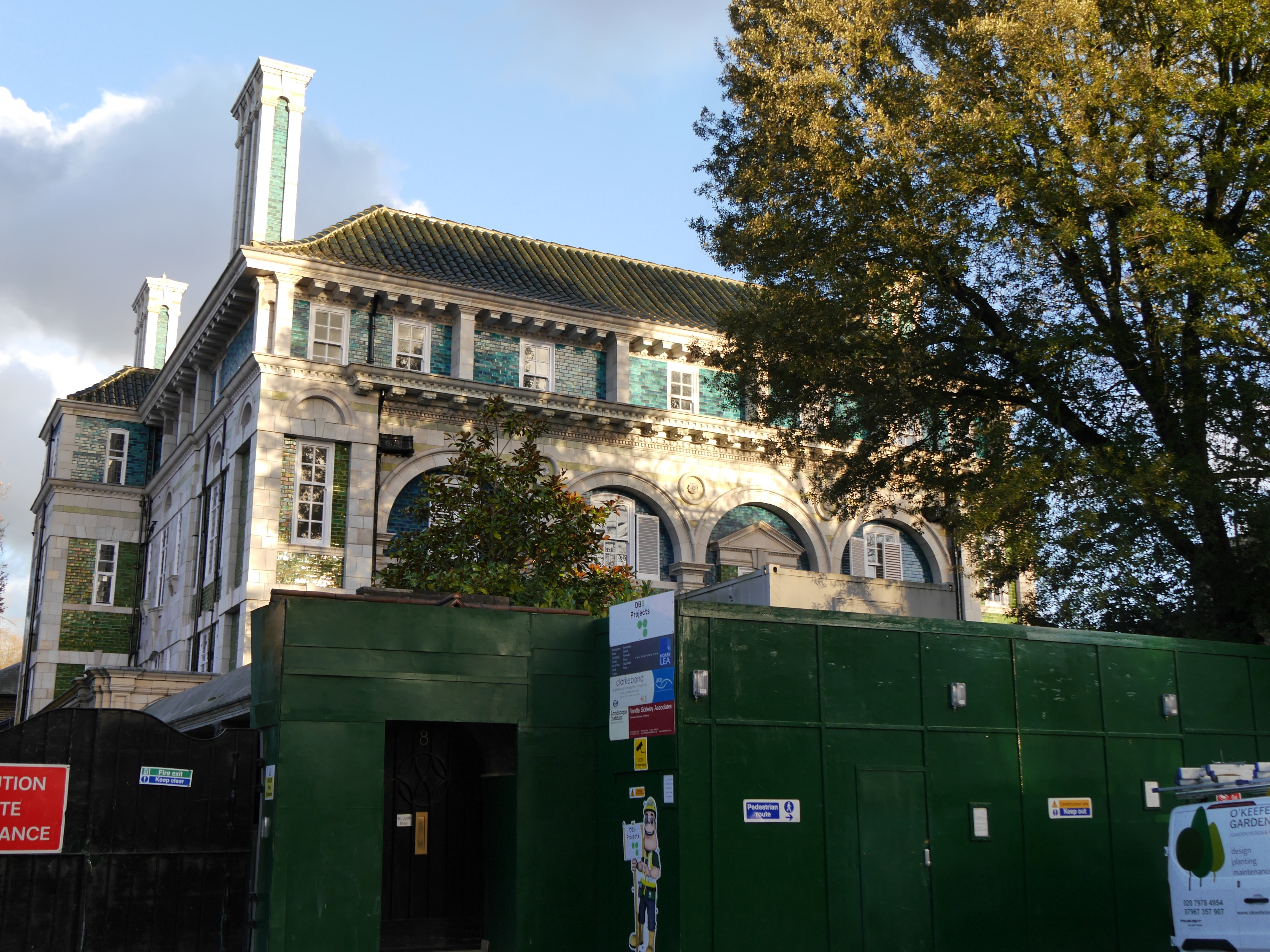 Debenham House, January 2015